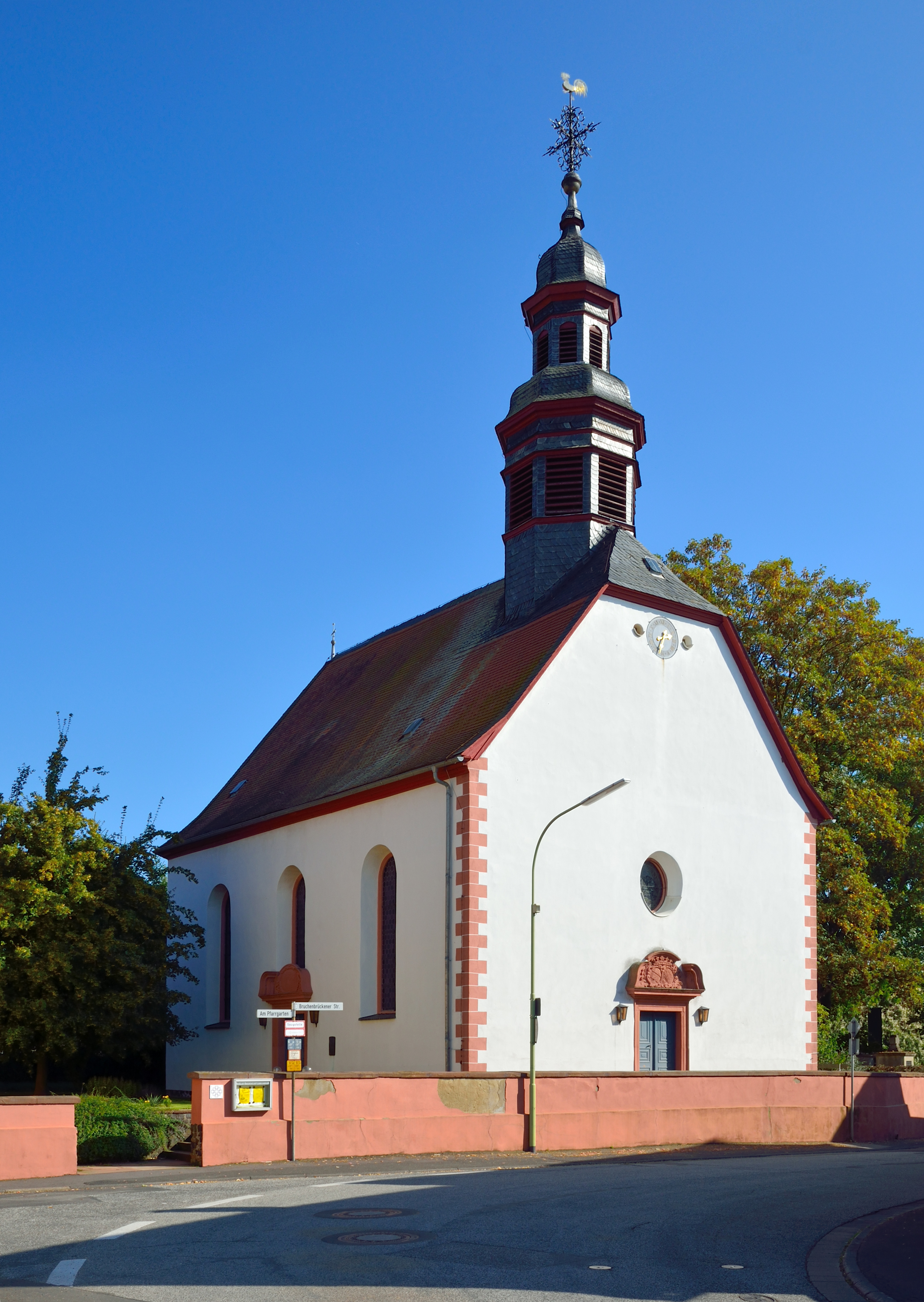 The evangelic parish church in Bruchenbrücken, Friedberg, Hesse